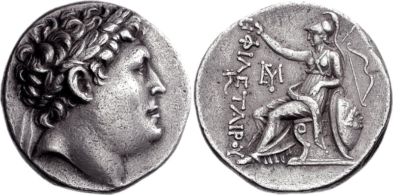 Kings of Pergamon. Attalus I. 241-197 BC. AR Tetradrachm (16.93 g, 12h). Struck circa 241-235 BC. Laureate head of Philetairos right Athena enthroned left, holding wreath, elbow resting on shield to right; spear behind, cornucopia to outer left, monogram to inner left, bow to right. Westermark Group VIA (obv. die V.CI); SNG France 1622. Good VF, lightly toned, minor porosity.